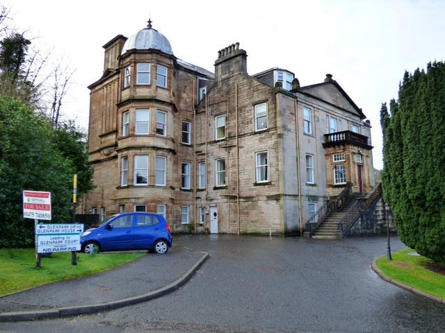 A Category C Listed former mansionhouse, early 19thC origins with later extensions. Now sub-divided into flats.